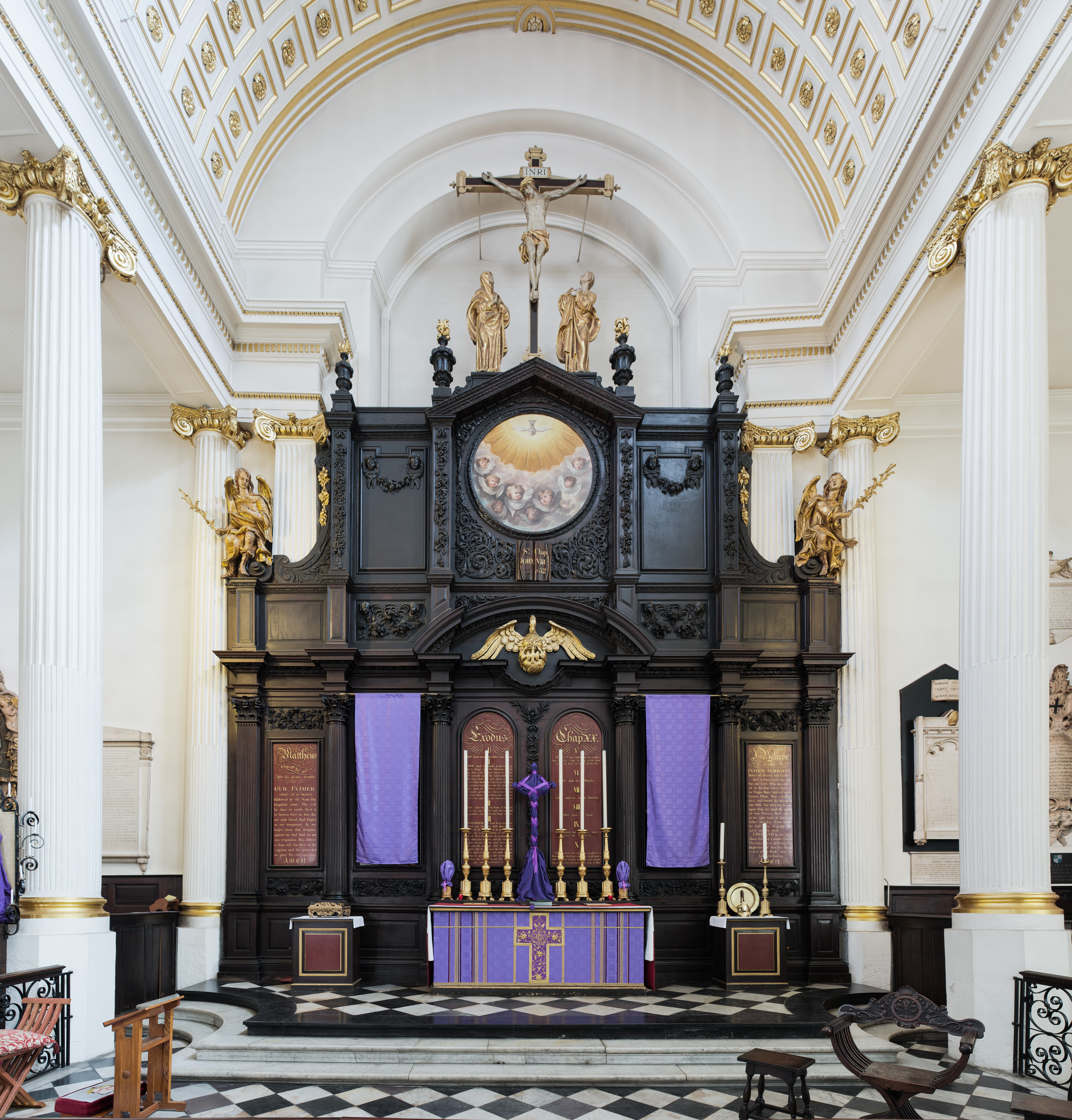 The altar and reredos of St Magnus-the-Martyr Church.